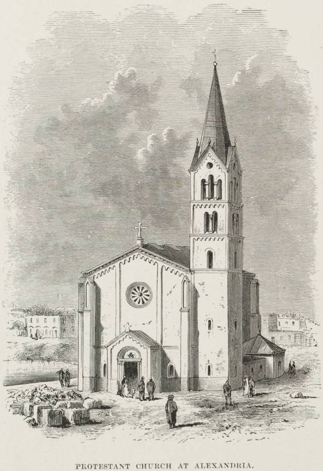 A small church building standing apart from other buildings, with a small steeple.